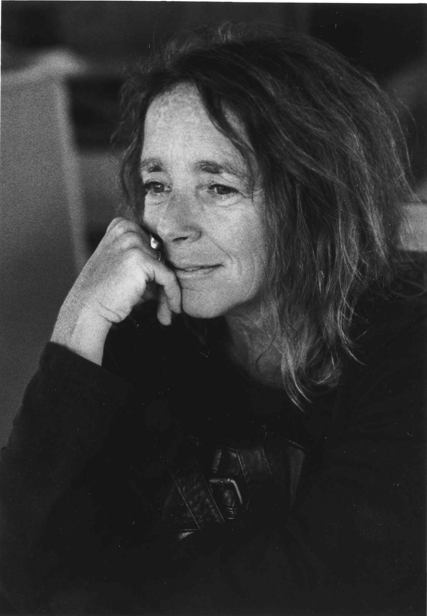 Ursula Goodenough by Heuser.